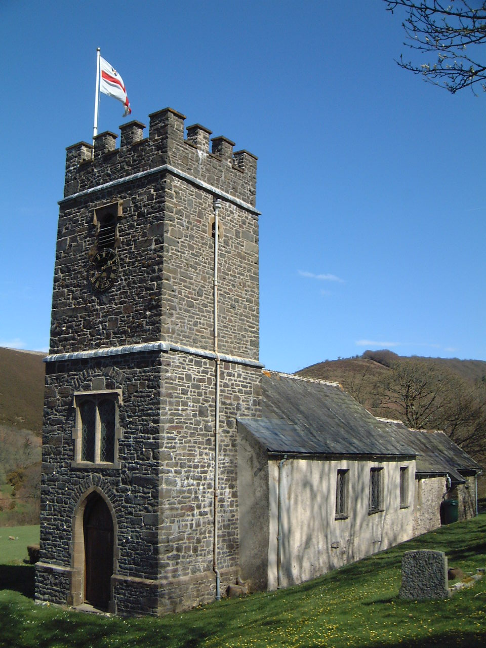 St Mary's Church, Oare, Somerset, circa 2000.